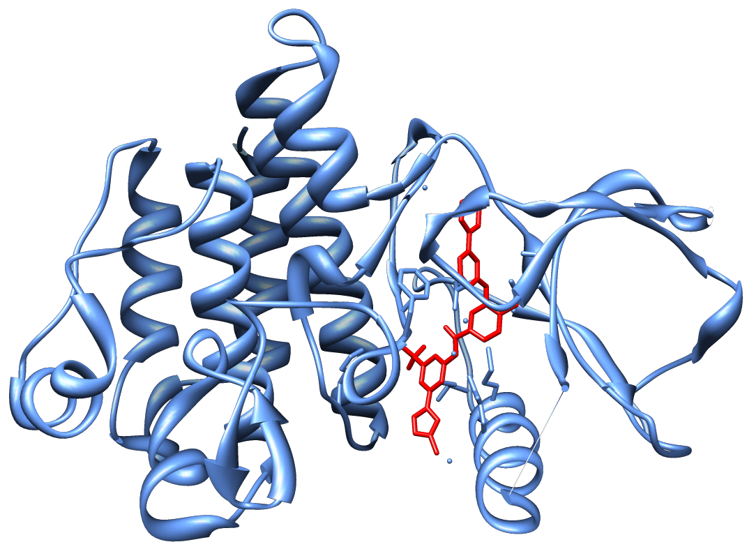 Based on PDB 3CS9 showing 2nd Gen TKI Nilotinib in complex with Abl Kinase. Molecular graphics images were produced using the UCSF Chimera package from the Resource for Biocomputing, Visualization, and Informatics at the University of California, San Francisco (supported by NIH P41 RR001081).